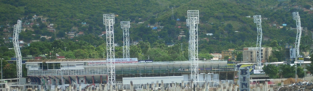 Chico Carrasquel Stadium fron the distance